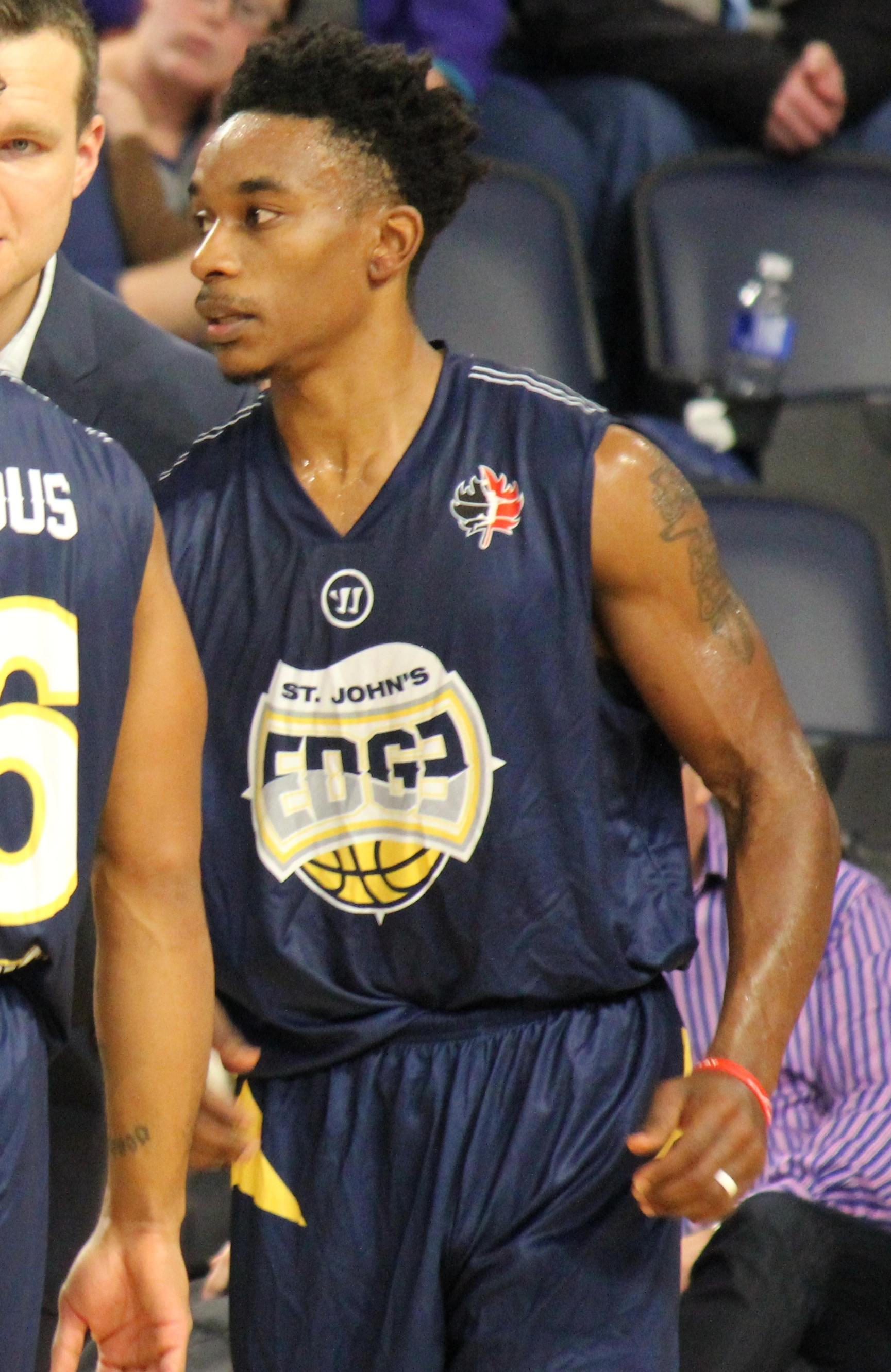 halifax